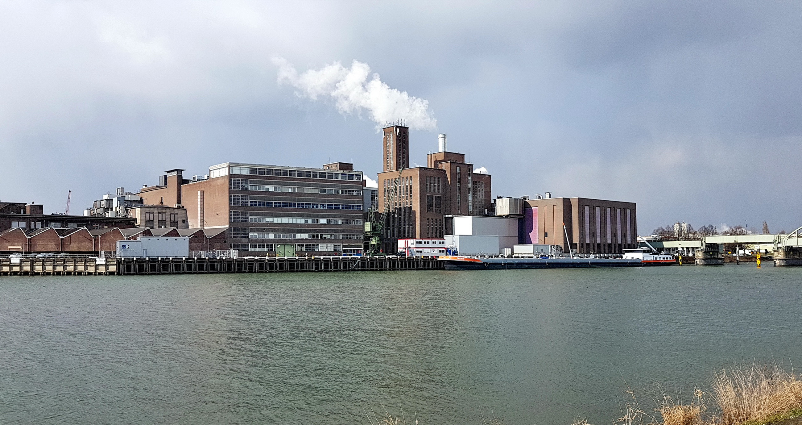 View of the river Meuse in Maastricht, Netherlands. Across the river the Royal Dutch Paper Factory (KNP), now Sappi.